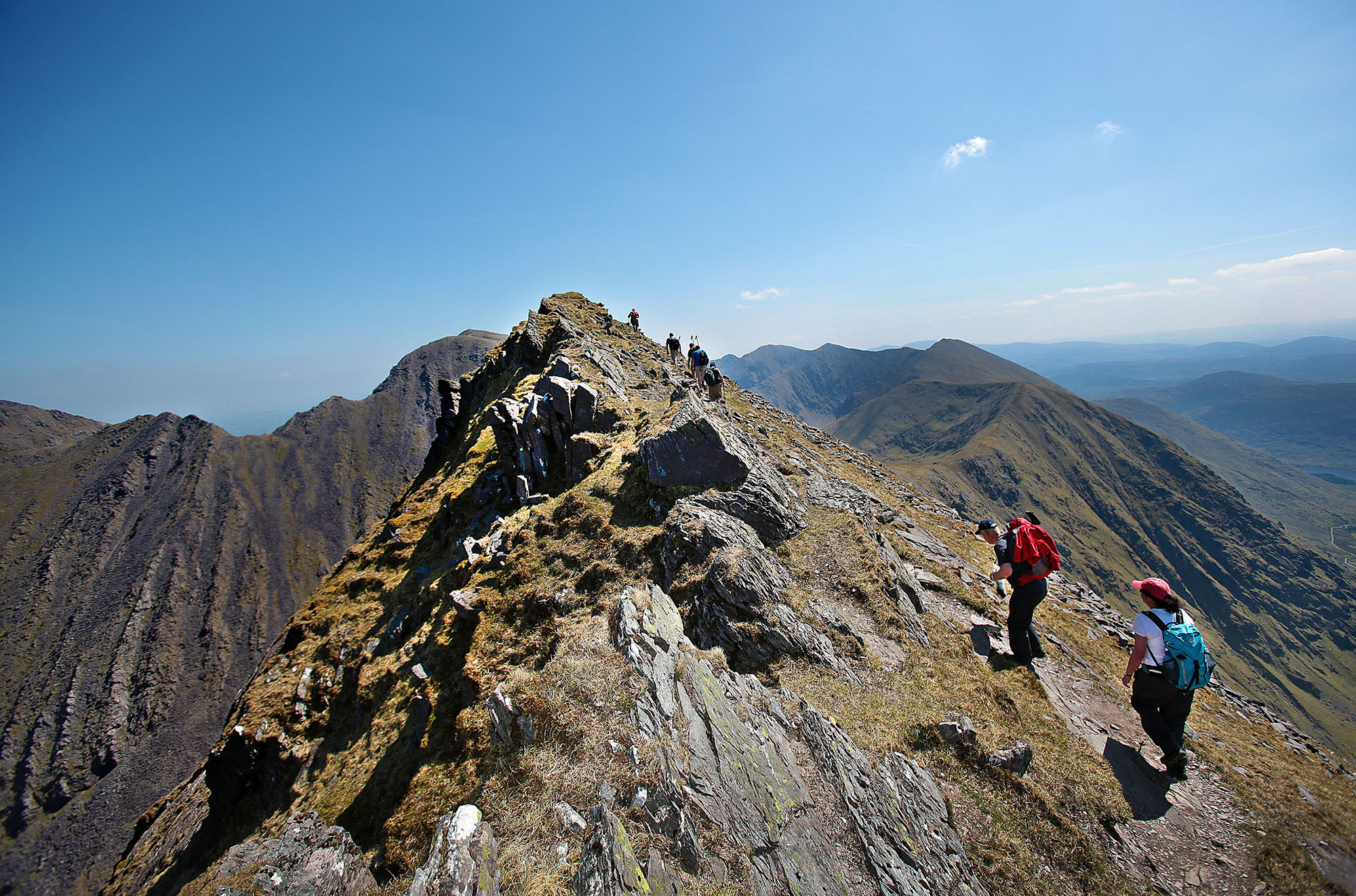 Summit of Caher East Top, with the summit of Carrauntoohil just visible behind (left), and the Beenkeragh Ridge (at the far left); to the right is the long eastern ridge of the Reeks, with Cnoc na Peiste as the tallest summit